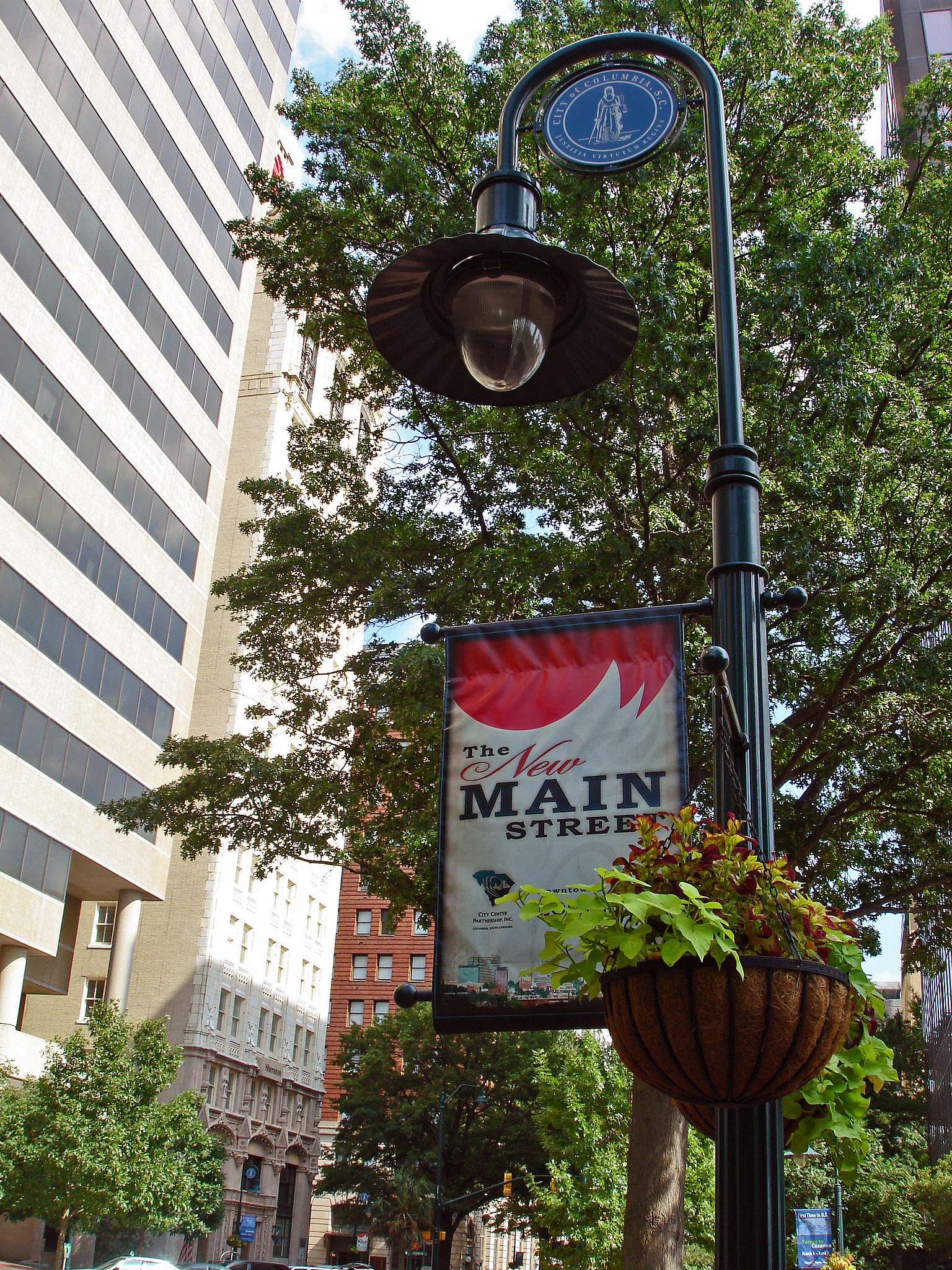 Lightpost banner on Main Street in downtown Columbia, South Carolina, USA